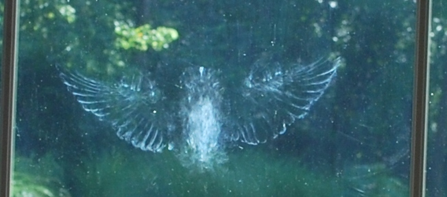 Bird imprint on window